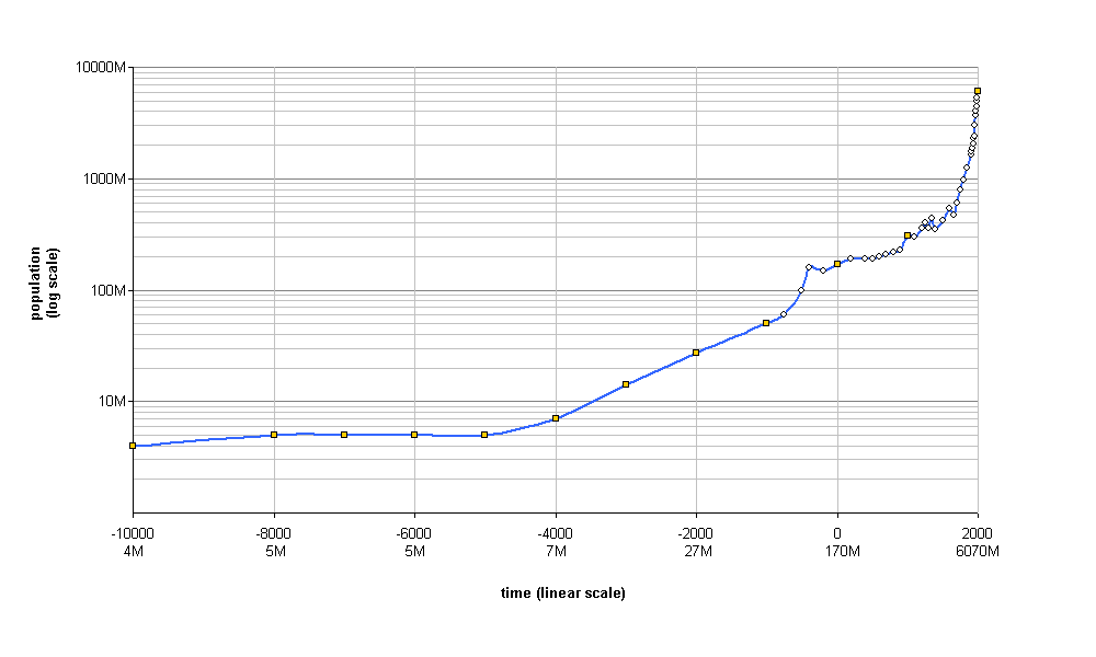 World population curve. A log scale is used for the population figures to allow better reading of the data.